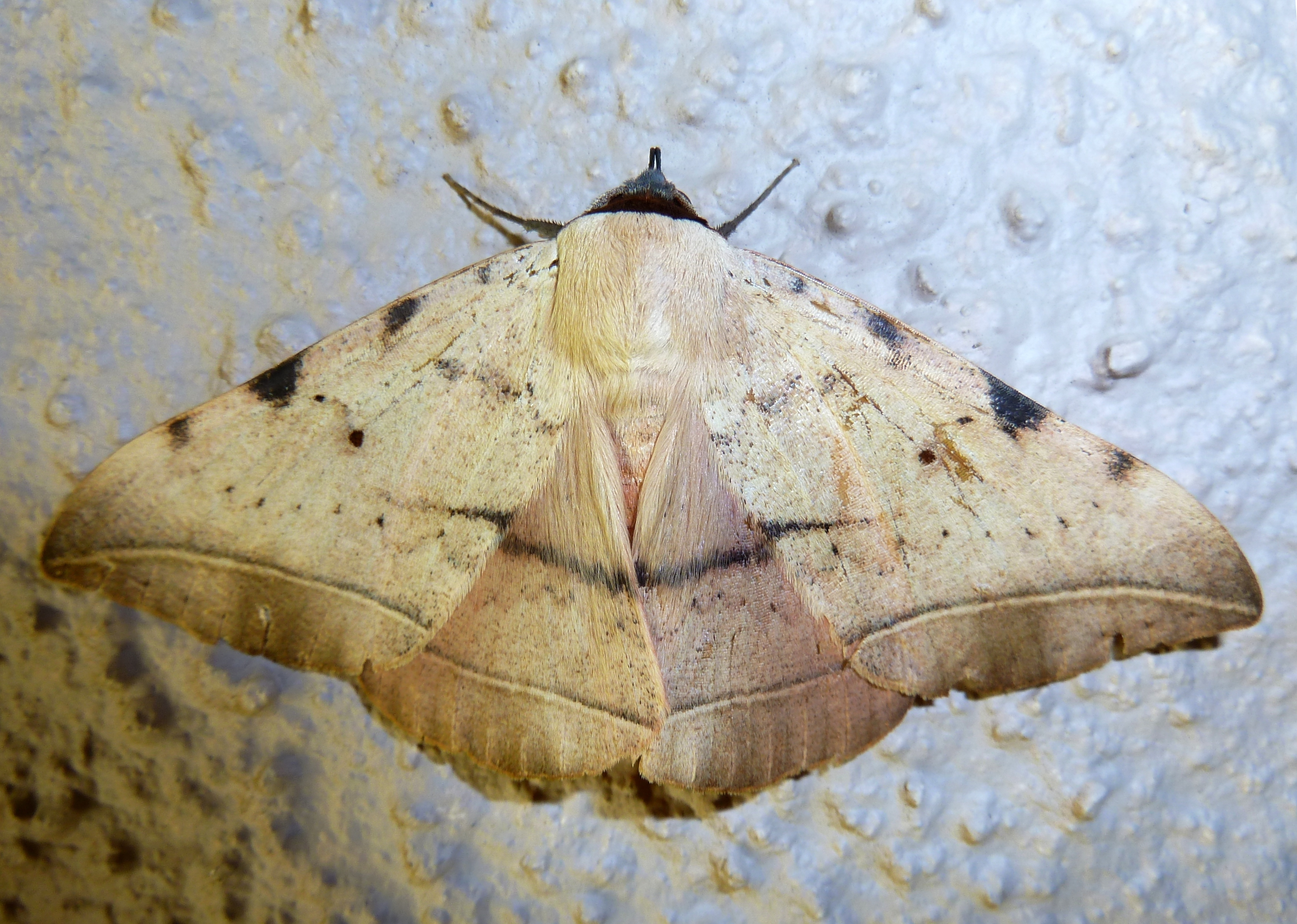 Hypopyra capensis at Seringveld near Pretoria